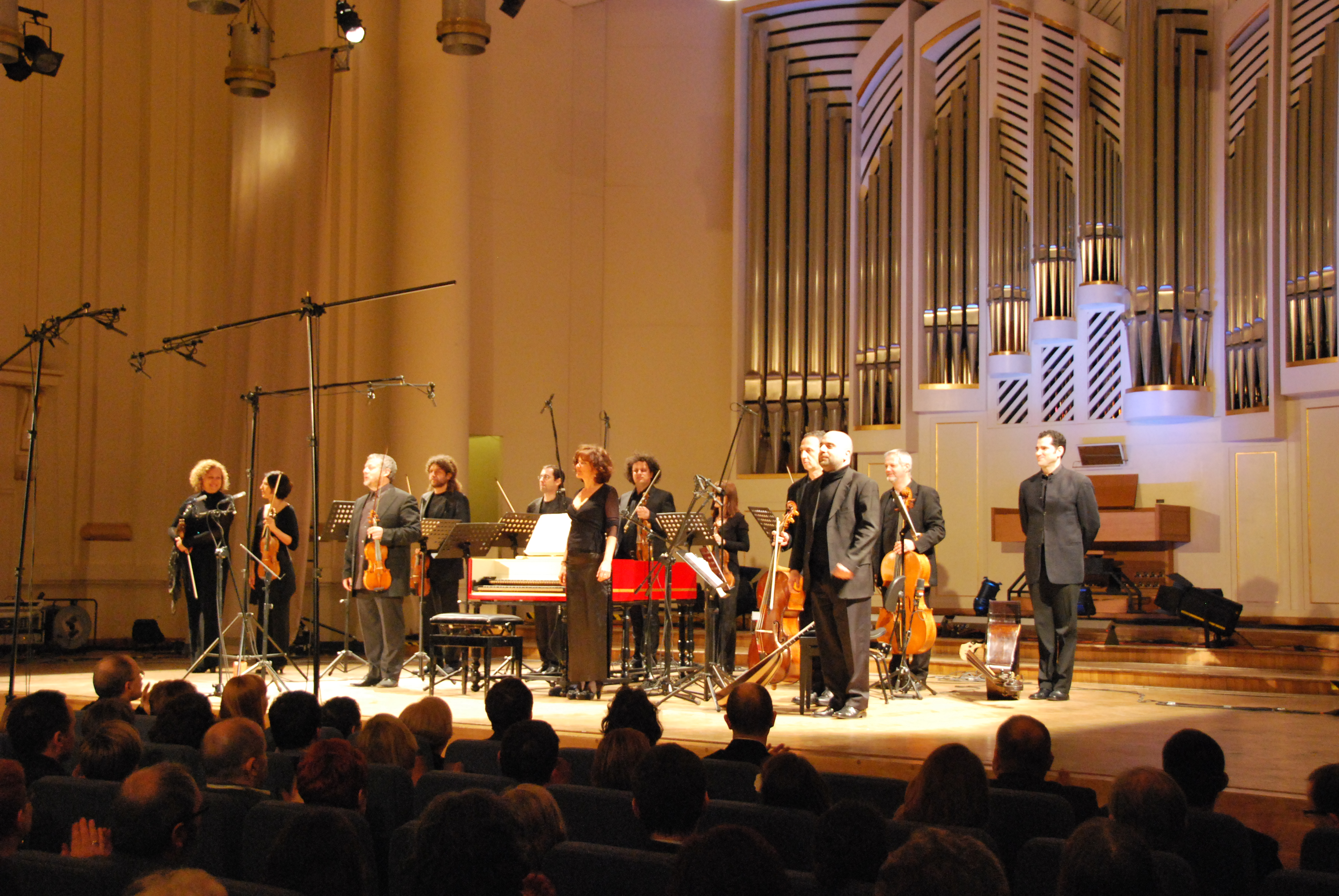 Europa Galante, Misteria Paschalia Festival, Kraków Philharmonic, 05.04.2010.